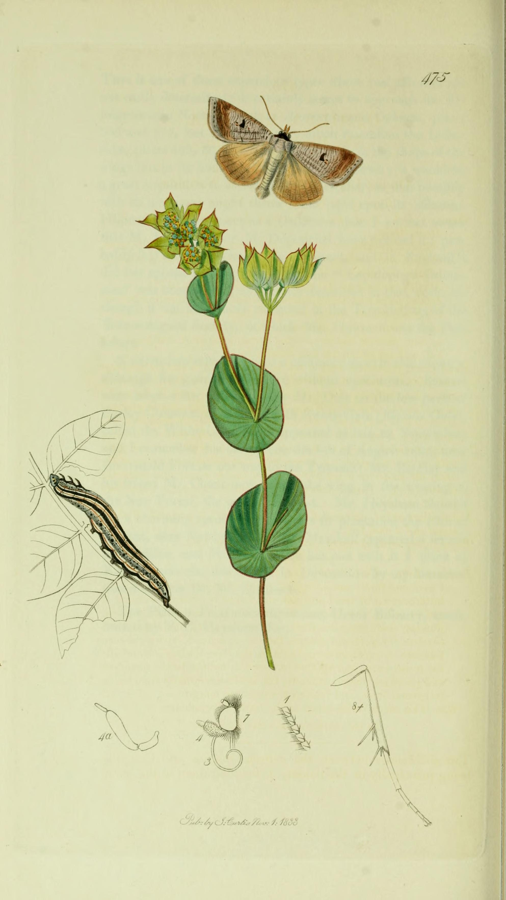 An illustration from British Entomology by John Curtis. Ophiusa lusoria or Lygephila pastinum (Black-neck).